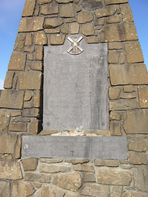 Bannockburn Monument plaque: For God And St. Andrew Robert The Bruce King Of Scots Planted His Standard Near This Spot When The Scottish Patriots Under His Command Vanquished The Army Of Edward II Of England At The Battle Of Bannockburn 24th June – 1314 “We Fight Not For Glory, Nor For Wealth, Nor Honour But Only And Alone We Fight For Freedom Which No Good Man Surrenders But With His Life” The quotation is taken from the final paragraph of the Declaration of Arbroath, believed to have been written by Bernard de Linton, Abbot of Arbroath, and appended with 51 seals of the pro-Bruce Scottish nobility. It was sent to Avignon to ask the schismatic Pope John XXII to recognise Bruce's de facto sovereignty over Scotland. He replied affirmatively.